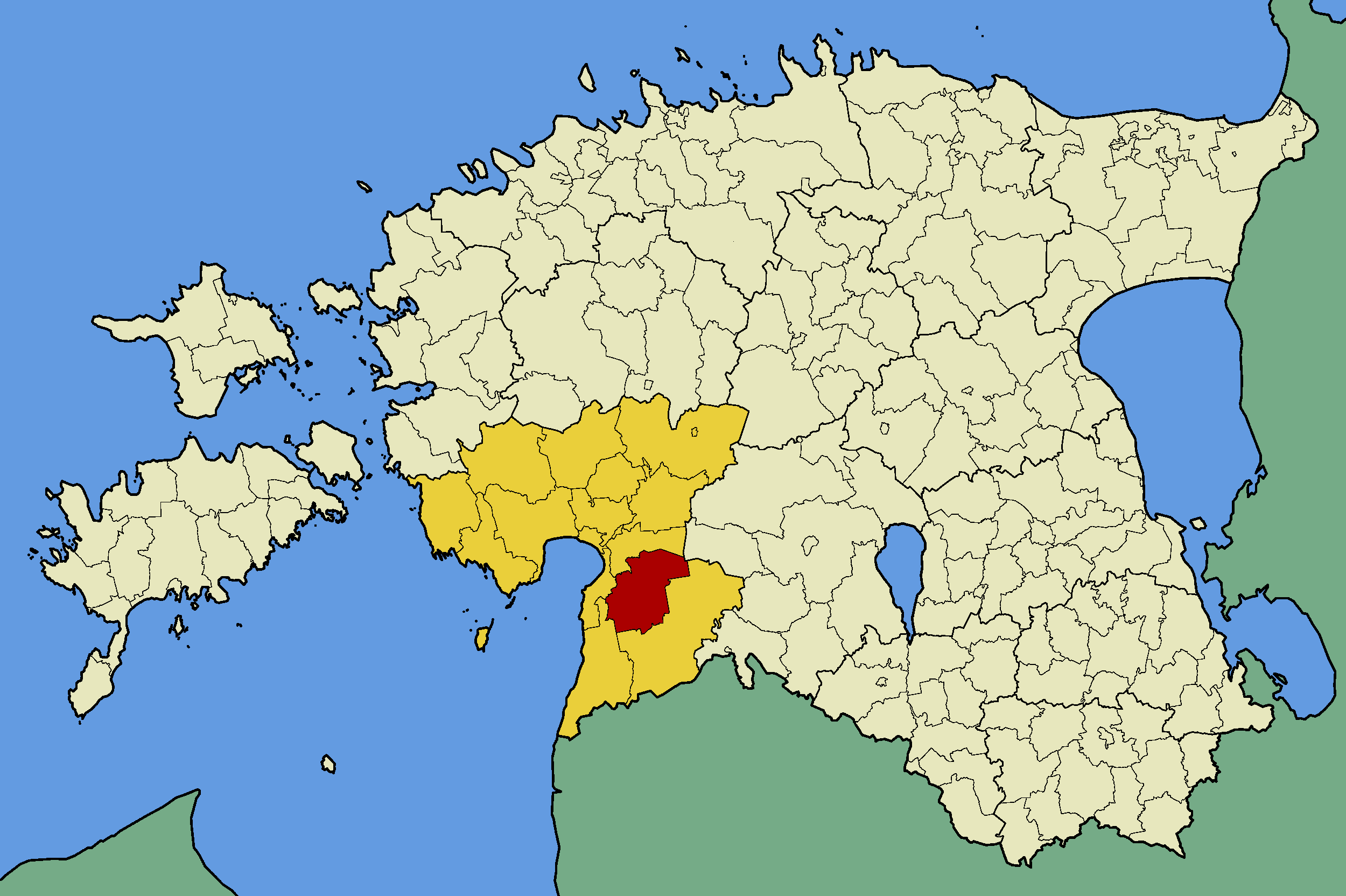 Map of Estonia with borders of municipalities (parishes). Pärnu county and Surju municipality emphasized.